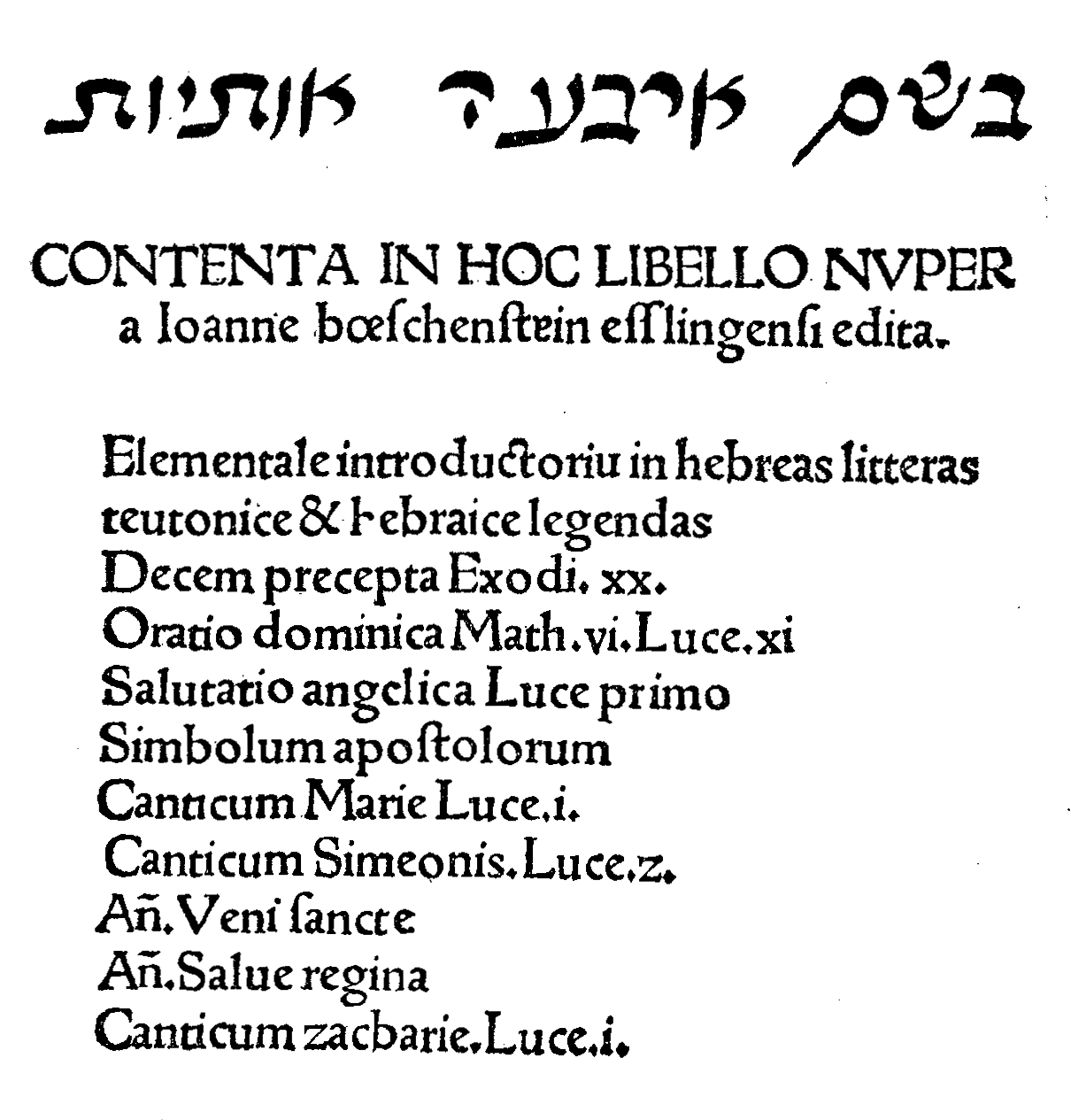 The title page of Johann Böschenstein's "Elementale introductorium in hebr[a]eas litteras" (Augsburg, 1514) as reproduced in Max Weinreich's "Shtaplen" (Berlin, 1923, p. 68) ייִדיש: די טיטל־זייט פון יאָהאַן בעשענשטיינס "Elementale introductorium in hebraeas literas" (אויגסבורג, 1514), רעפּראָדוצירט אין מאַקס וויינרייכס "שטאַפּלען" (בערלין, 1923, ז. 68)